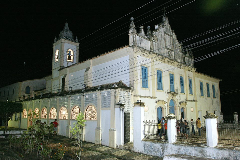 Art Sacred Museum